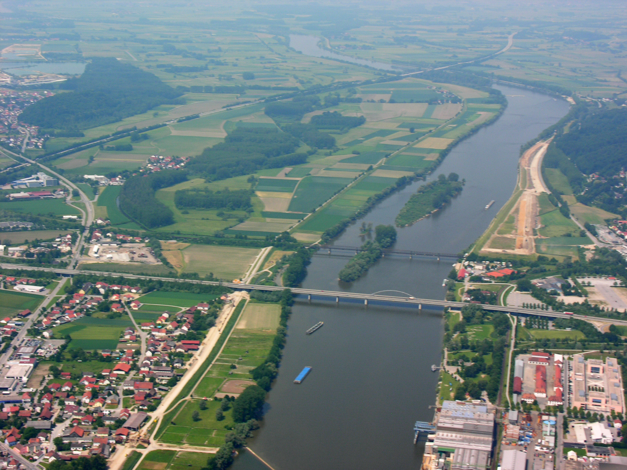 Germany, Bavaria, Bridges across the Danube in Deggendorf